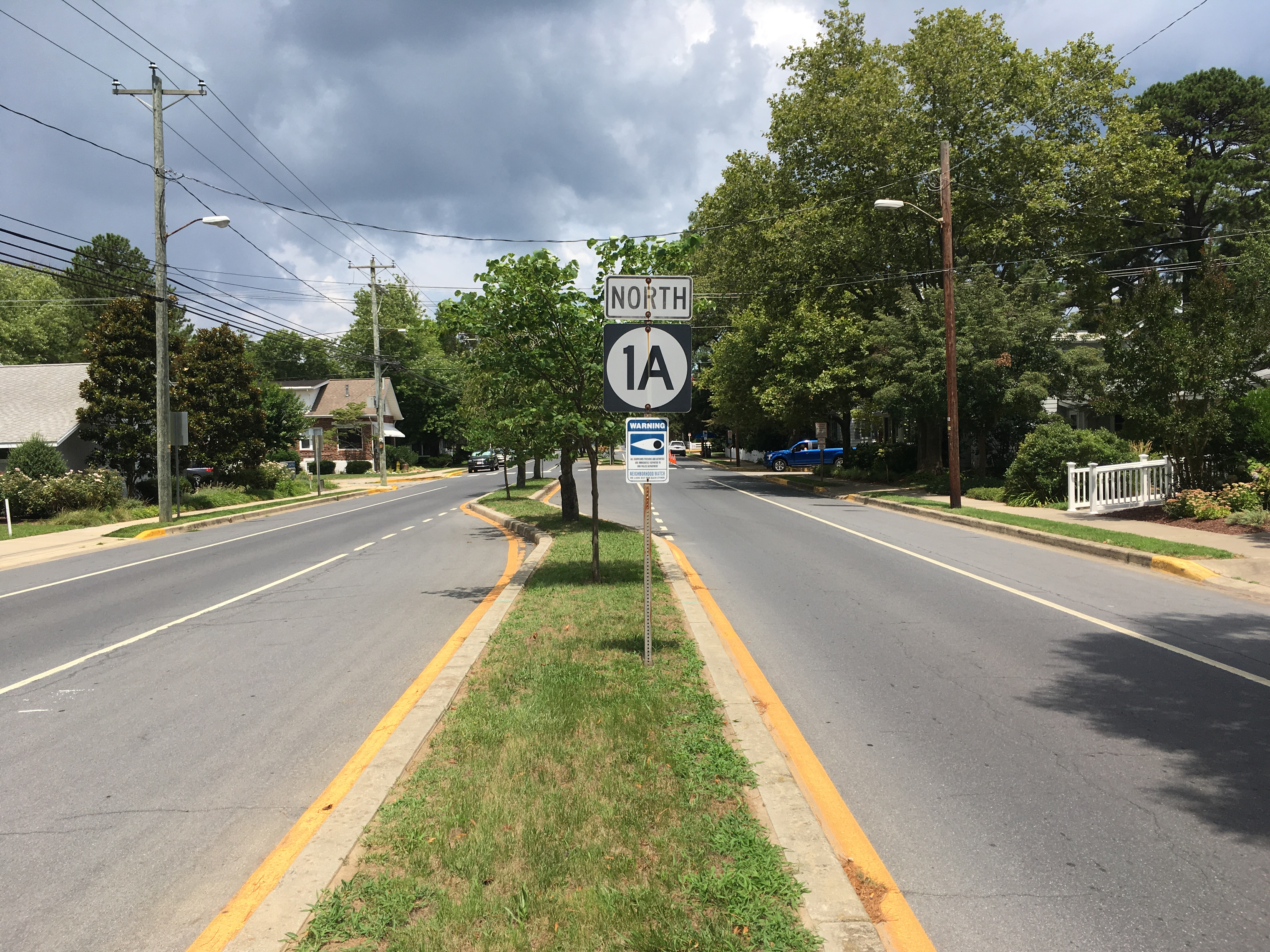 Northbound Delaware Route 1A (Bayard Avenue) past the intersection with Rodney Street in Rehoboth Beach, Delaware